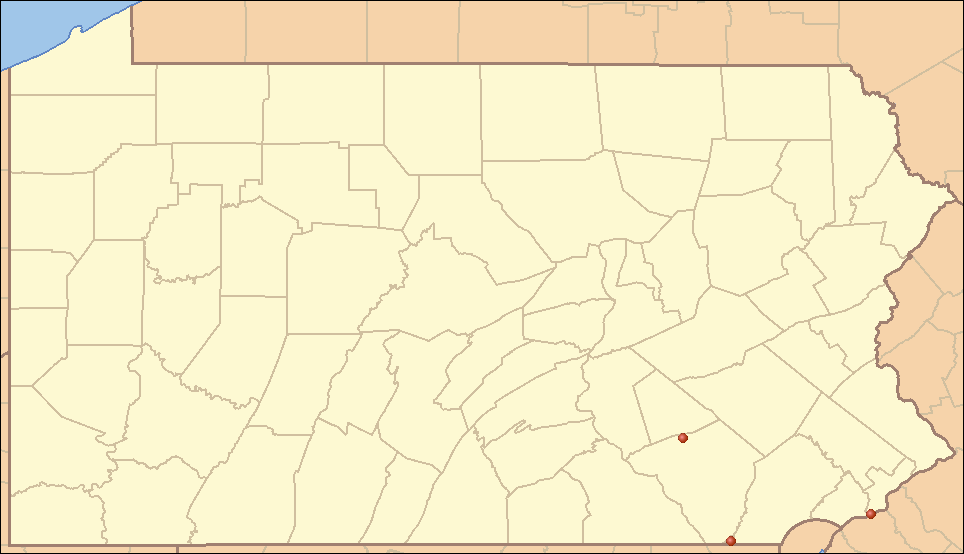 Locator Map of William Penn State Forest, Pennsylvania, United States